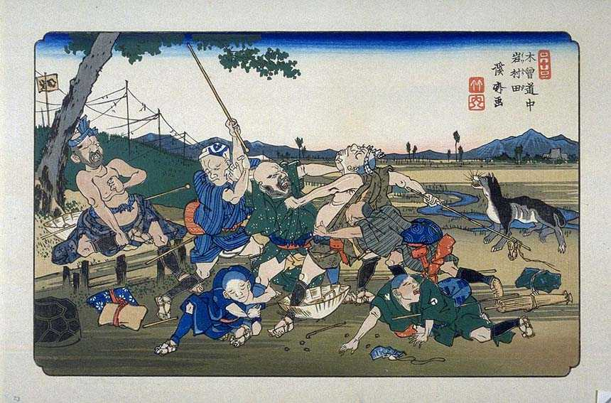 Iwamurada on the Kisokaido, ukiyo-e prints by Keisai Eisen